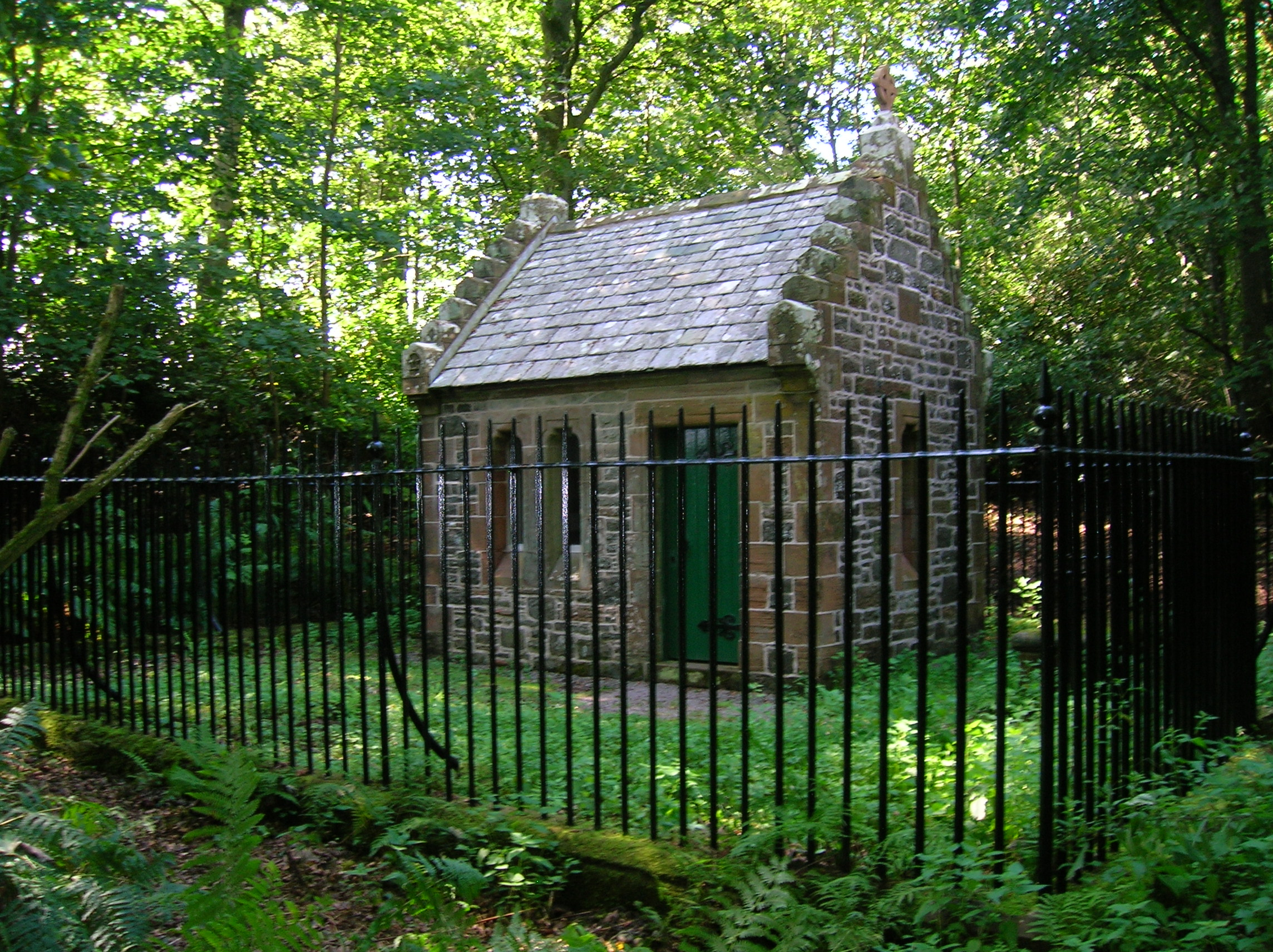 Burns's Hermitage at Friars Carse Hotel, Auldgirth, Dumfries, Scotland